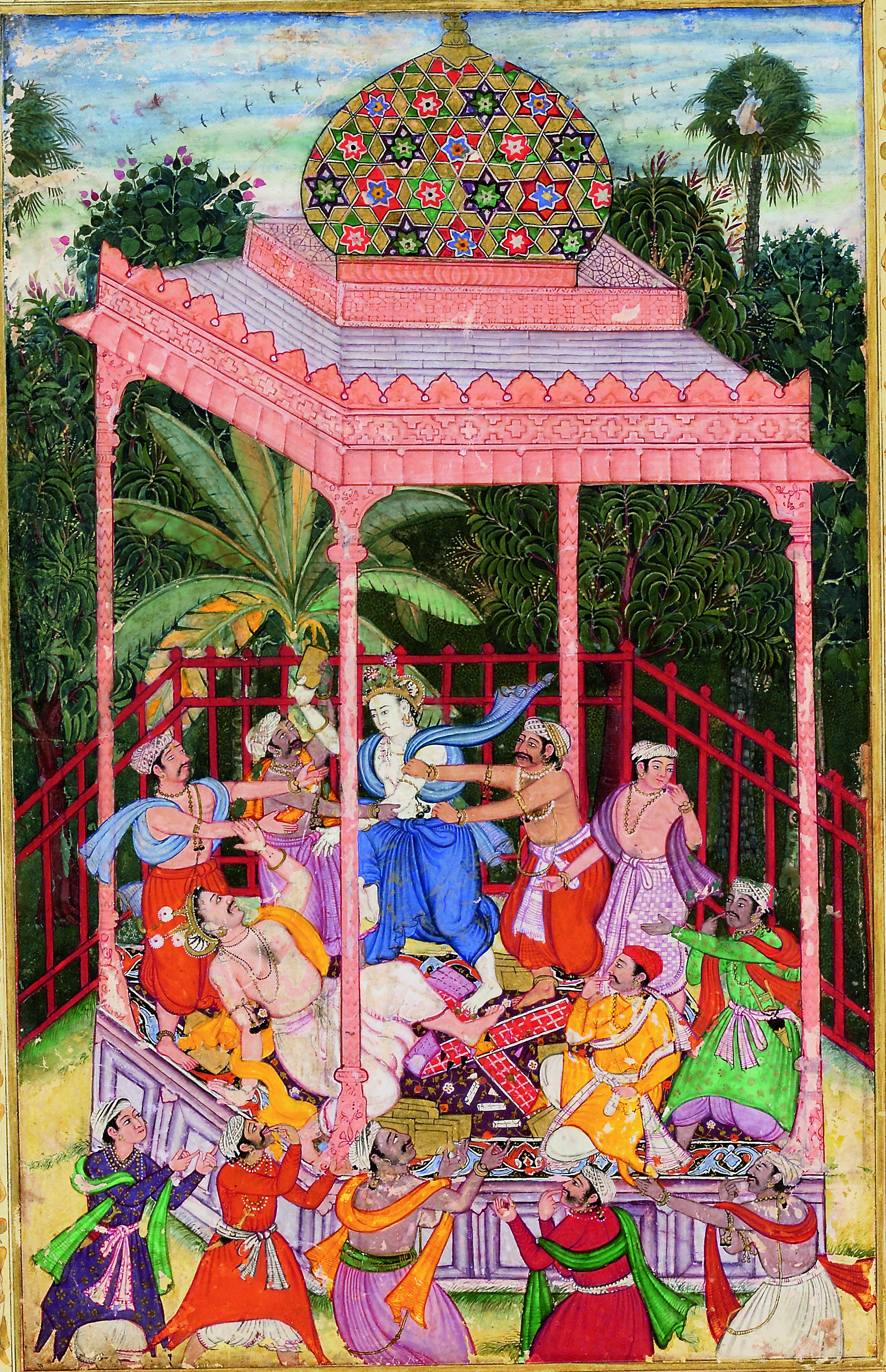 Series Title: Genealogy of Vishnu. Folio of Harivamsa made by mughal artist during Akbar time. It is appendix of Razmnama. Suite Name: Harivamsha Display Artist: Artist Unknown Creation Date: ca. 1585-1590 Display Dimensions: 12 1/2 in. x 7 15/16 in. (31.75 cm x 20.16 cm) Credit Line: Edwin Binney 3rd Collection Accession Number: 1990.287 Collection: The San Diego Museum of Art